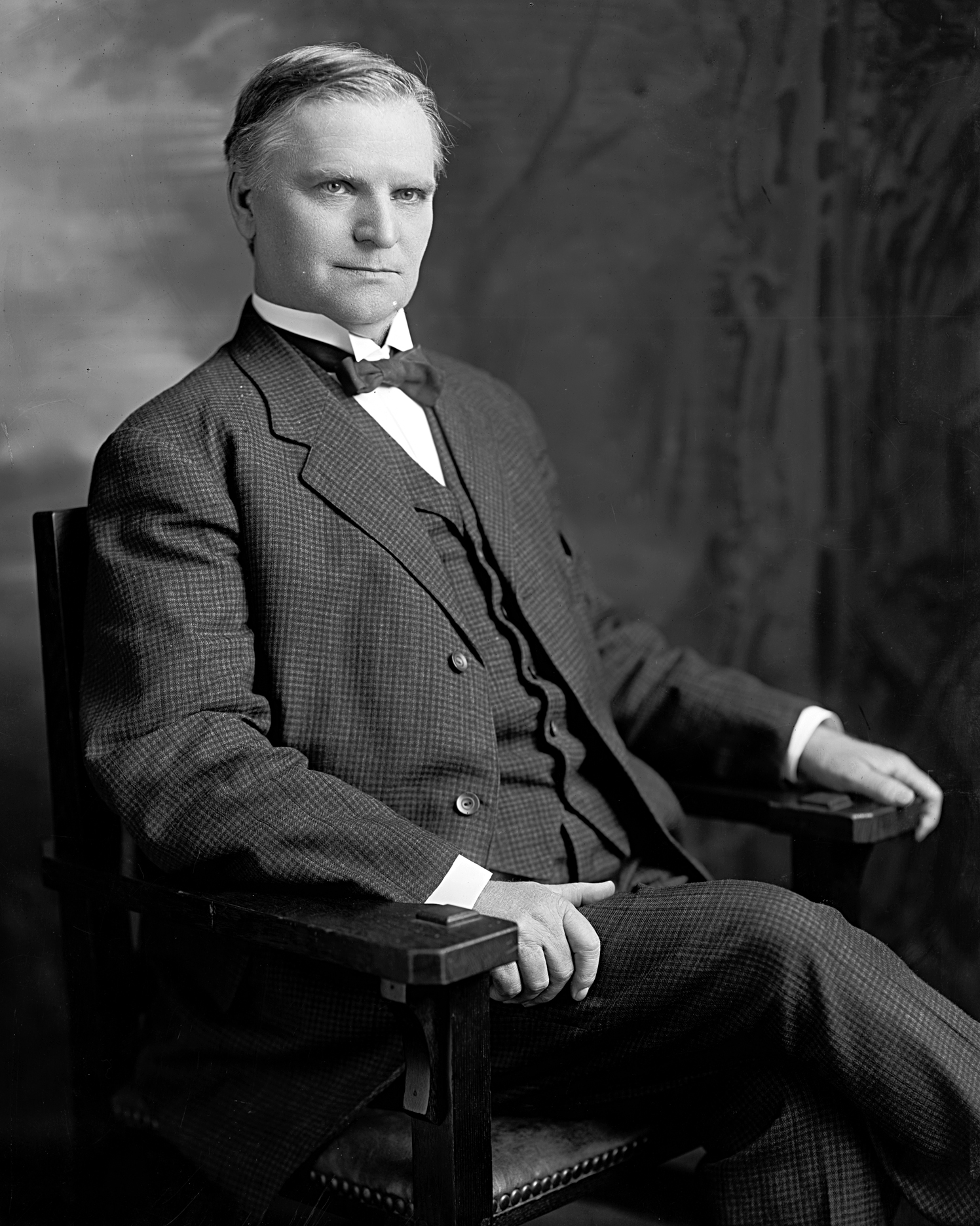 Rufus Hardy, US Representative from Texas